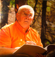 Bruno Cote, Canadian painter